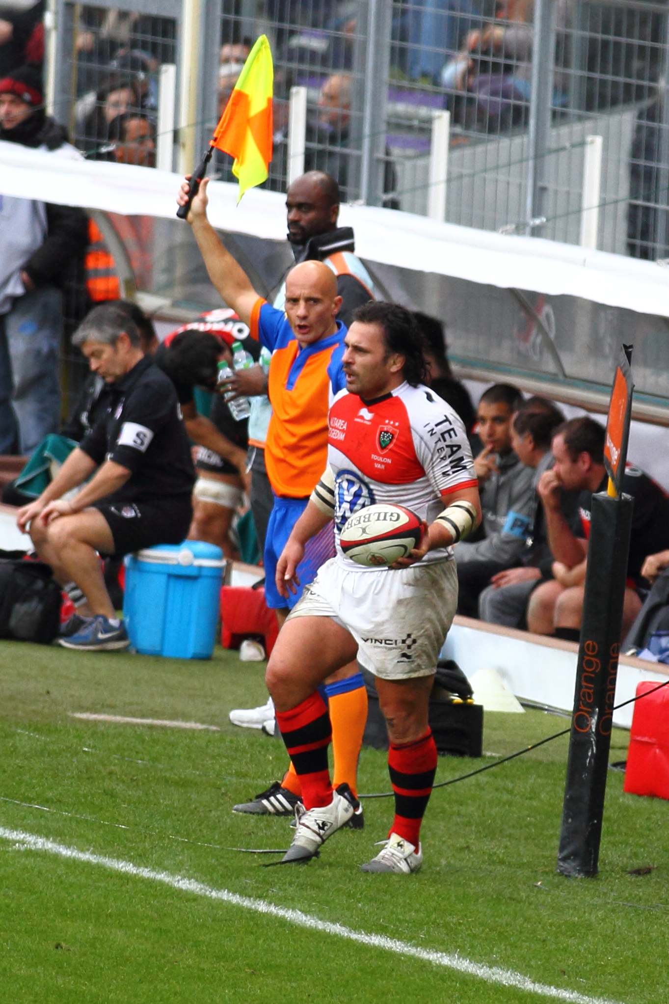 Top 14 — 3 December 2011, Stadium. Match between: Stade toulousain — RC Toulon